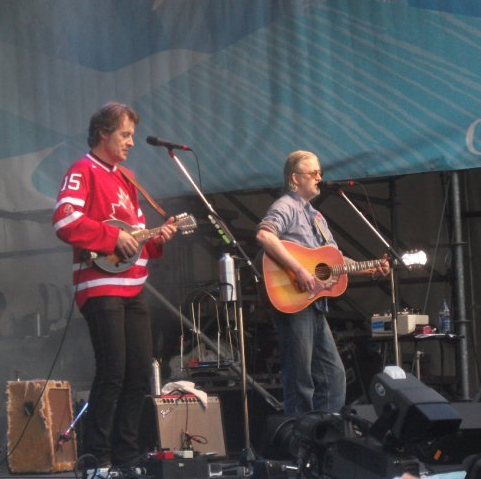 Blue Rodeo in concert, February 28, 2010 in Whistler, British Columbia